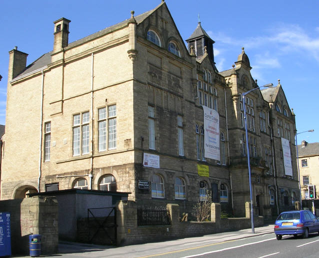 Coral College - 189 Manningham Lane Formerly Belle Vue High School for Boys - latterly Manningham Middle School - this property, built in 1905, is to open in September 2007 as an Independent Day & Boarding School for Girls.